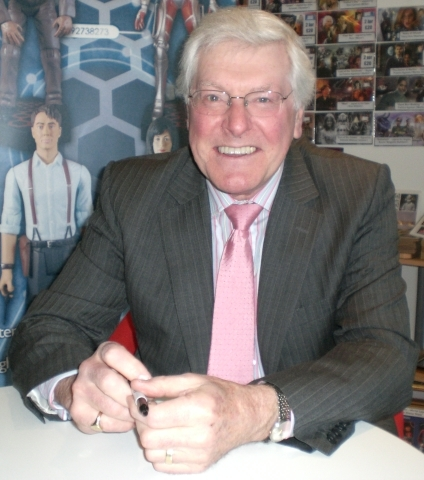 Peter Purves at The Television & Movie Store, Norwich, England on 28th March 2009.